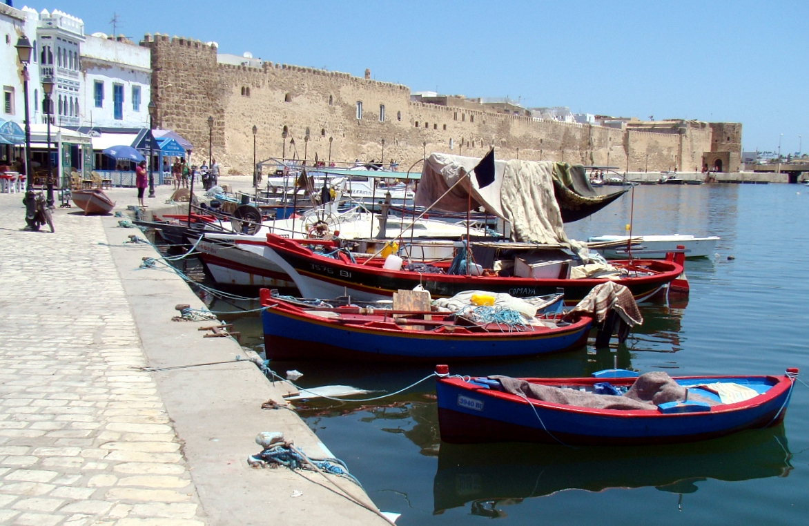 Old Port and Kasba. Bizerte